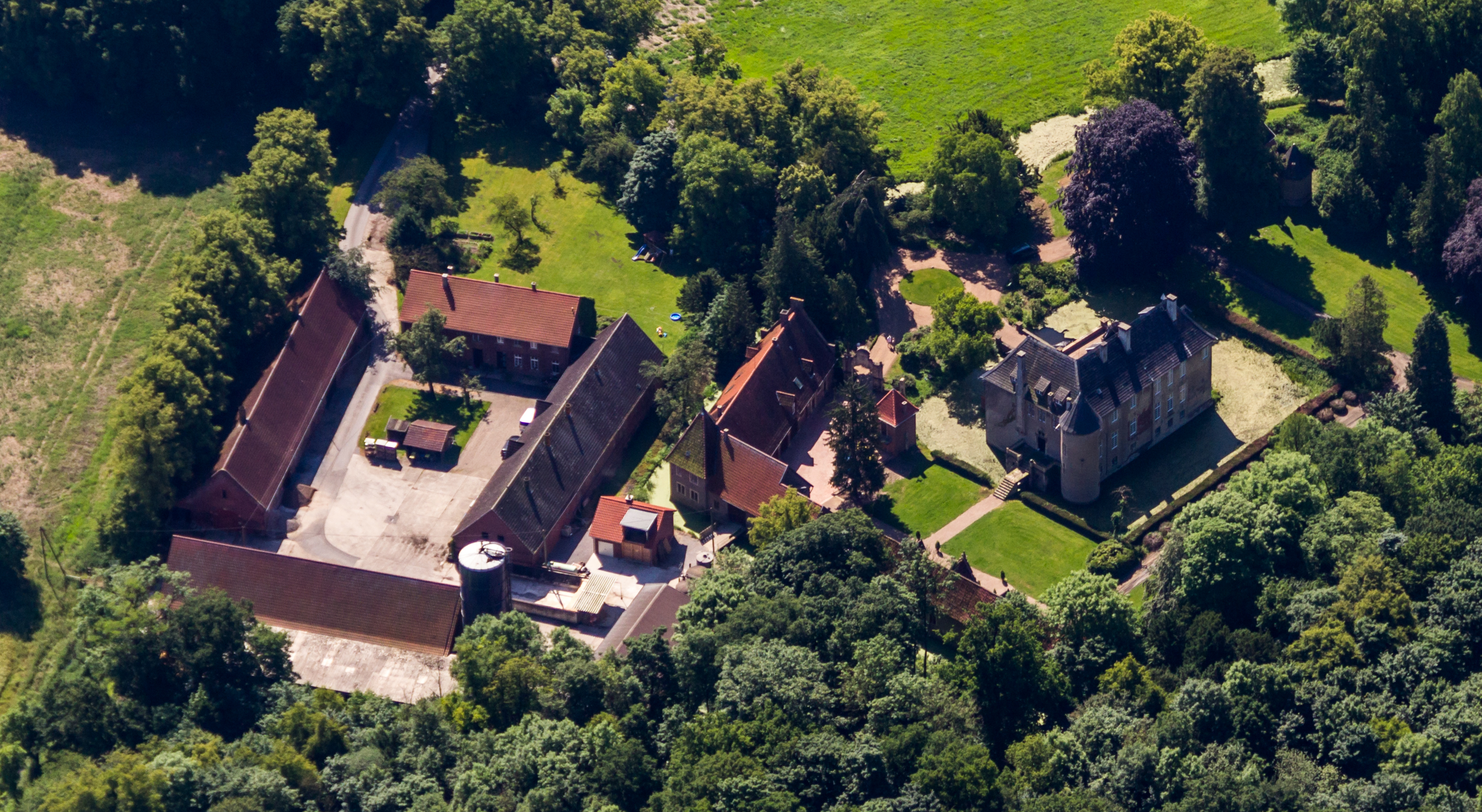 Ruhr Manor, Senden, North Rhine-Westphalia, Germany